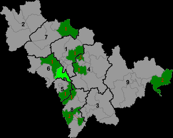 The location of the Manchu autonomous county and townships in Jilin Province of China. Light green is Yitong Manchu Autonomous County. Dark green are counties that contain Manchu ethnic townships; red digits indicate the number of such townships in each county.